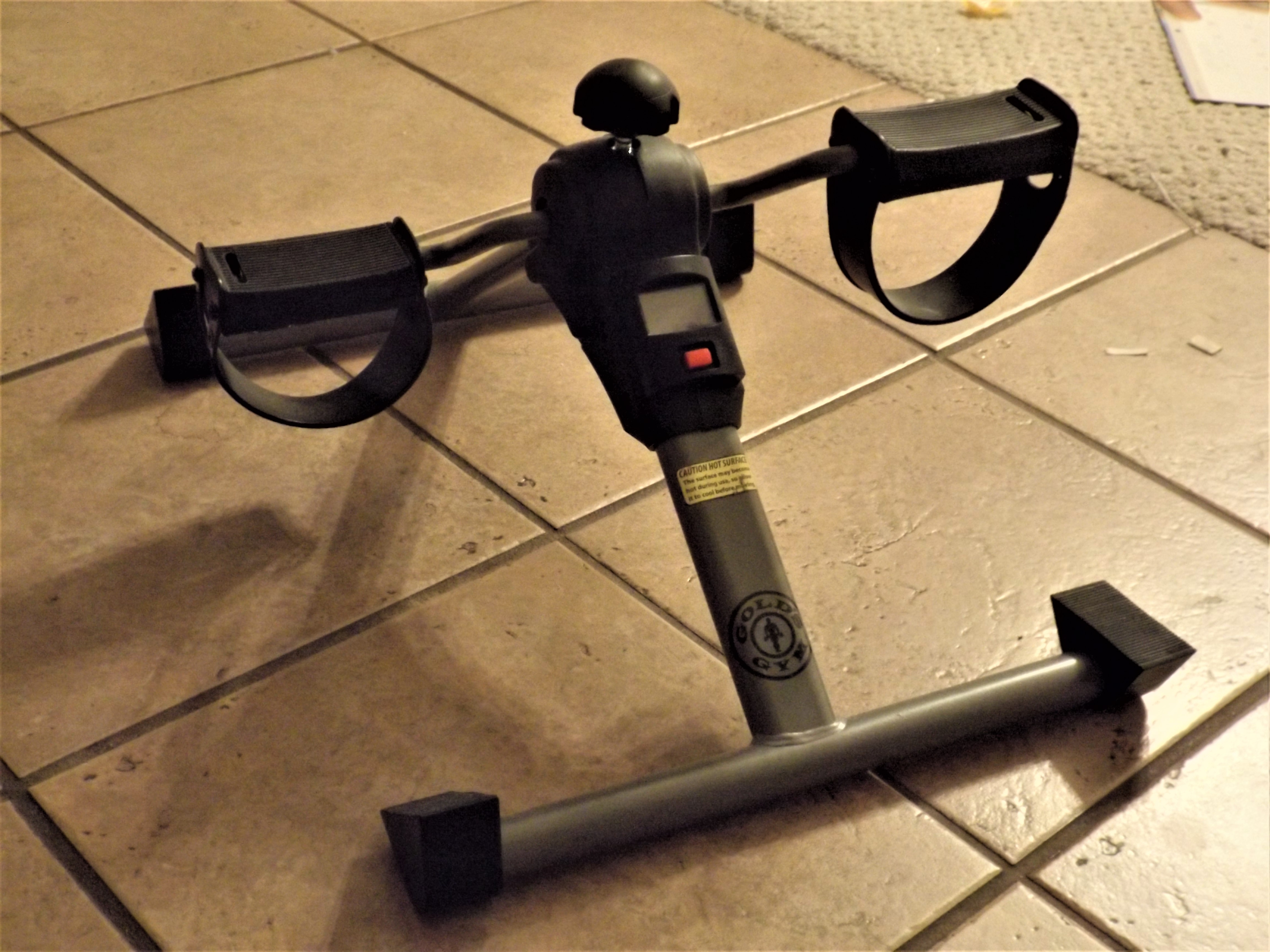 A mini-upper-and-lower body cycle manufactured by Gold's Gym International, Inc. Belongs to the original uploader as an alternative to both his stationary and outdoor mountain bicycles when going on trips such as job interviews or vacations.